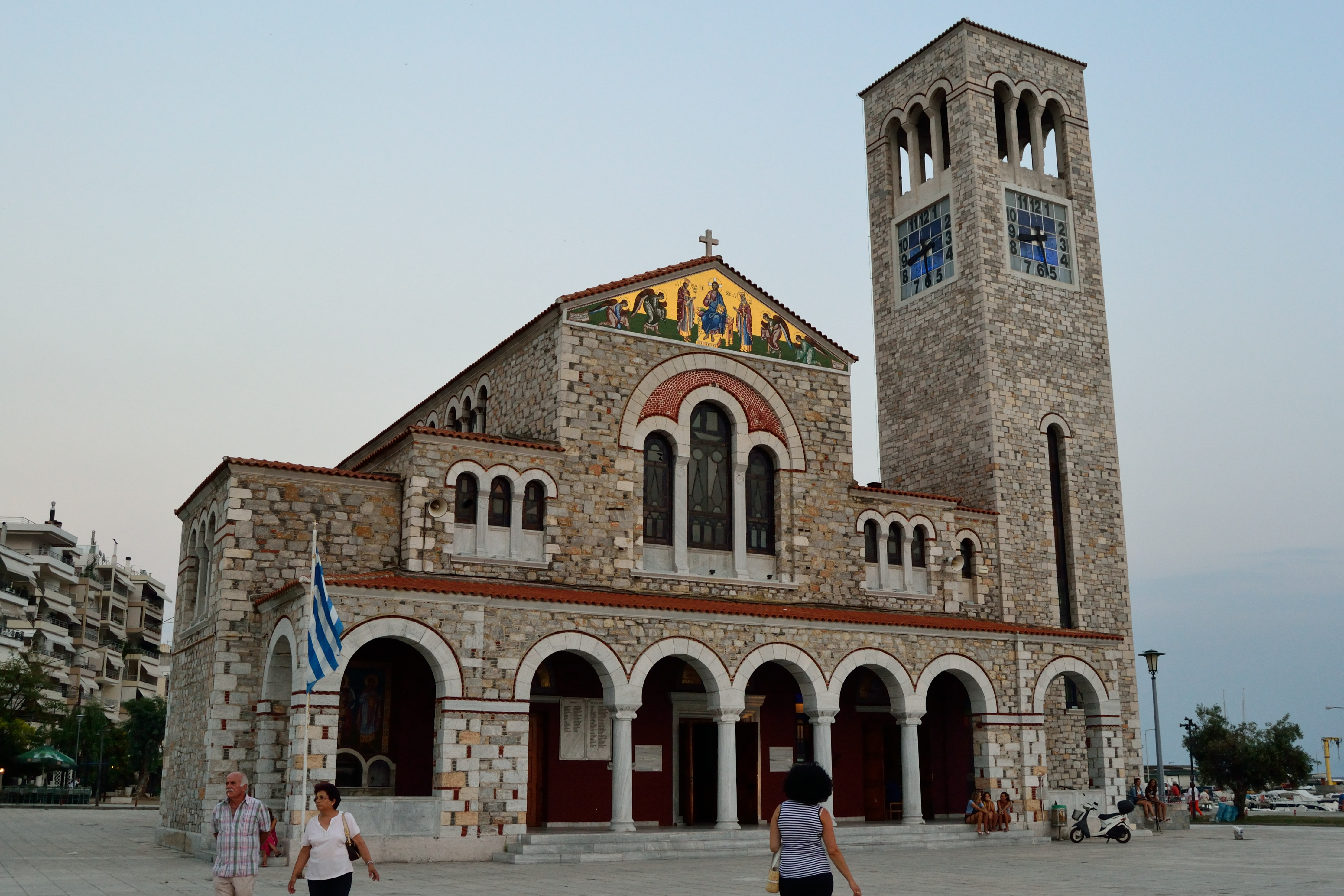 The church of Saints Constantine and Helen at the port of Volos